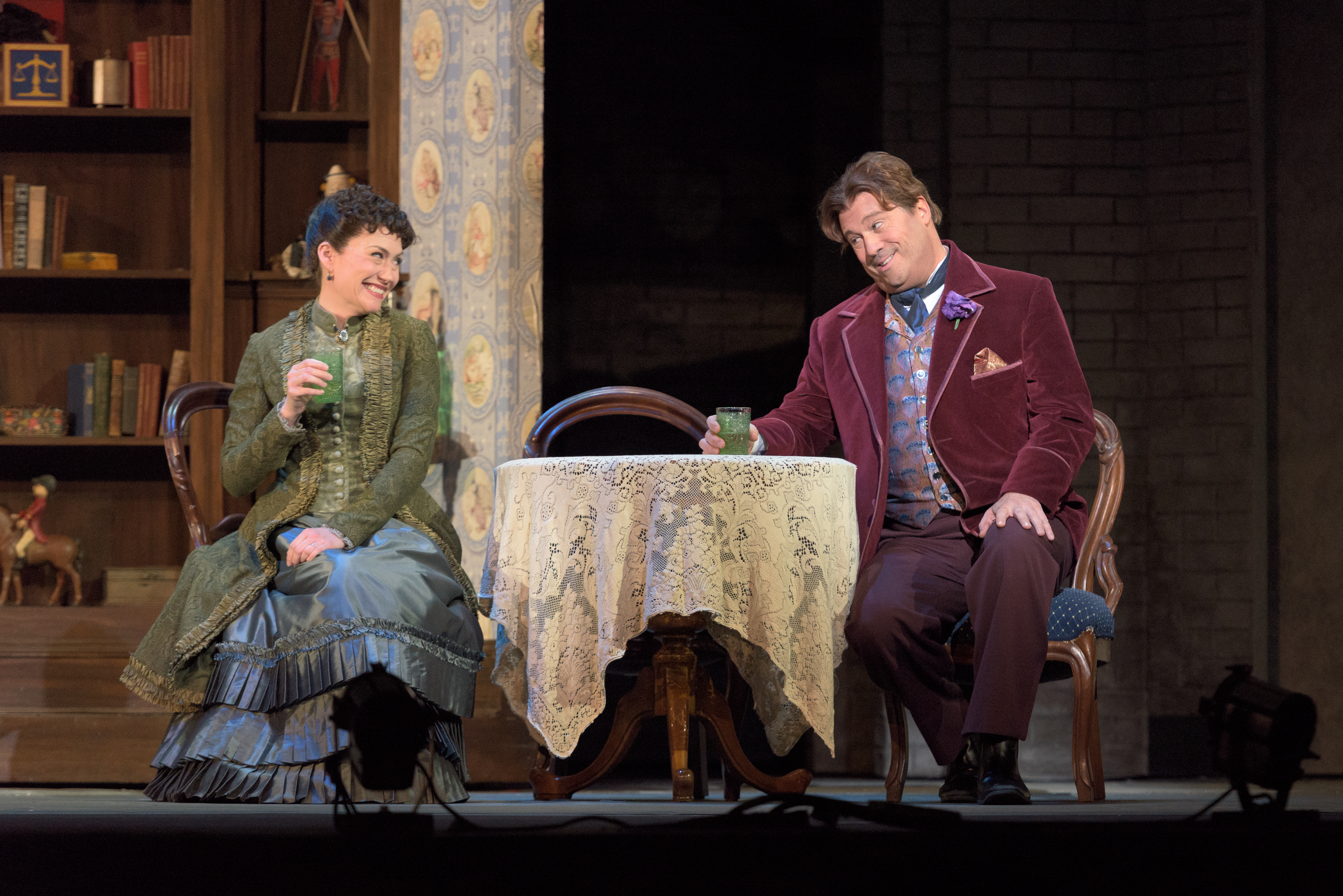 February 4, 2015 Academy of Music Philadelphia, PA Photo by Steven Pisano.